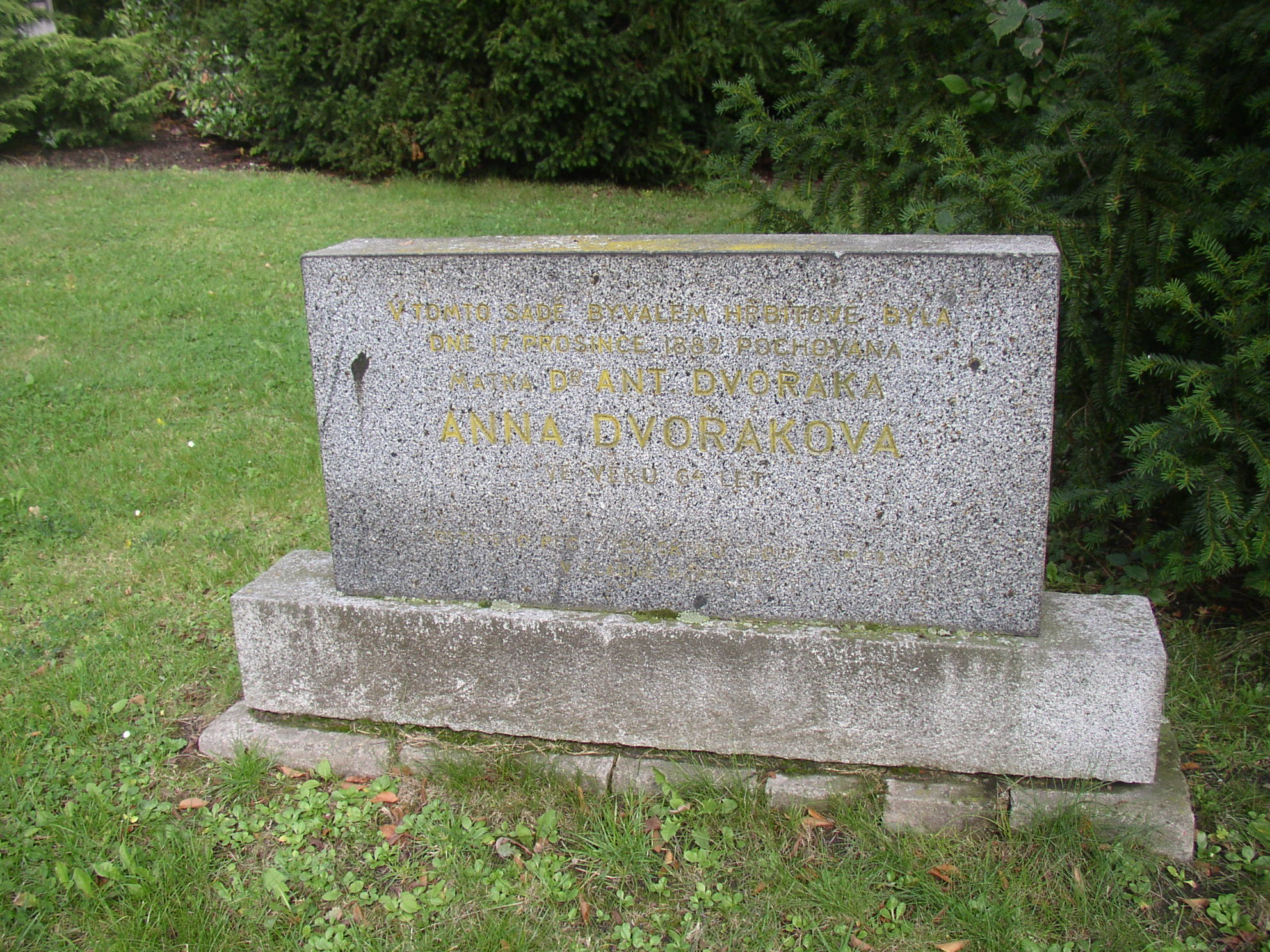 Memorial at burial site of Anna Dvořáková, mother of composer Antonín Dvořák. Dvořák Park, Kladno, Kladno District, Czech Republic. City cemetery existed at site of present park in 1830s-1890s. The composer's mother was buried here on 17 December 1882.